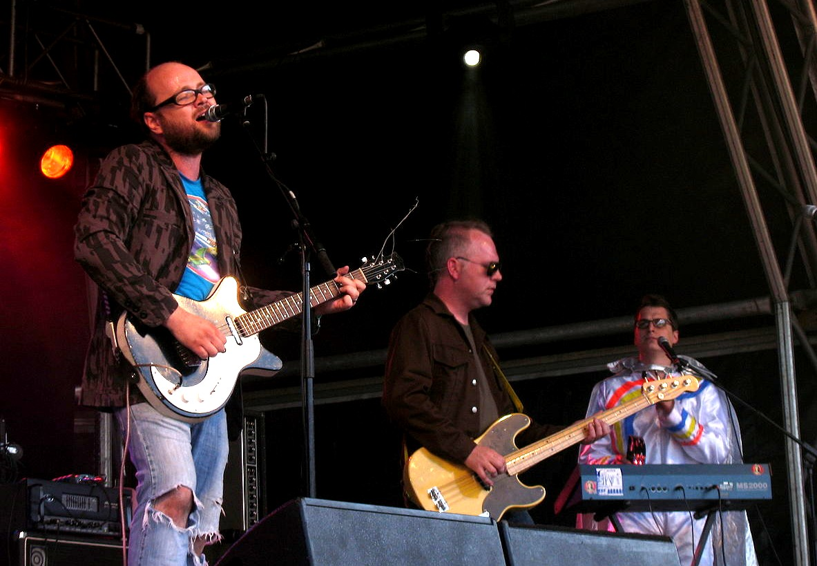 Power pop group The Apples in Stereo performs at the Primavera Festival in Barcelona, Spain in June 2007, photographed by adrigu. This is a shrunken and cropped version of the original picture.